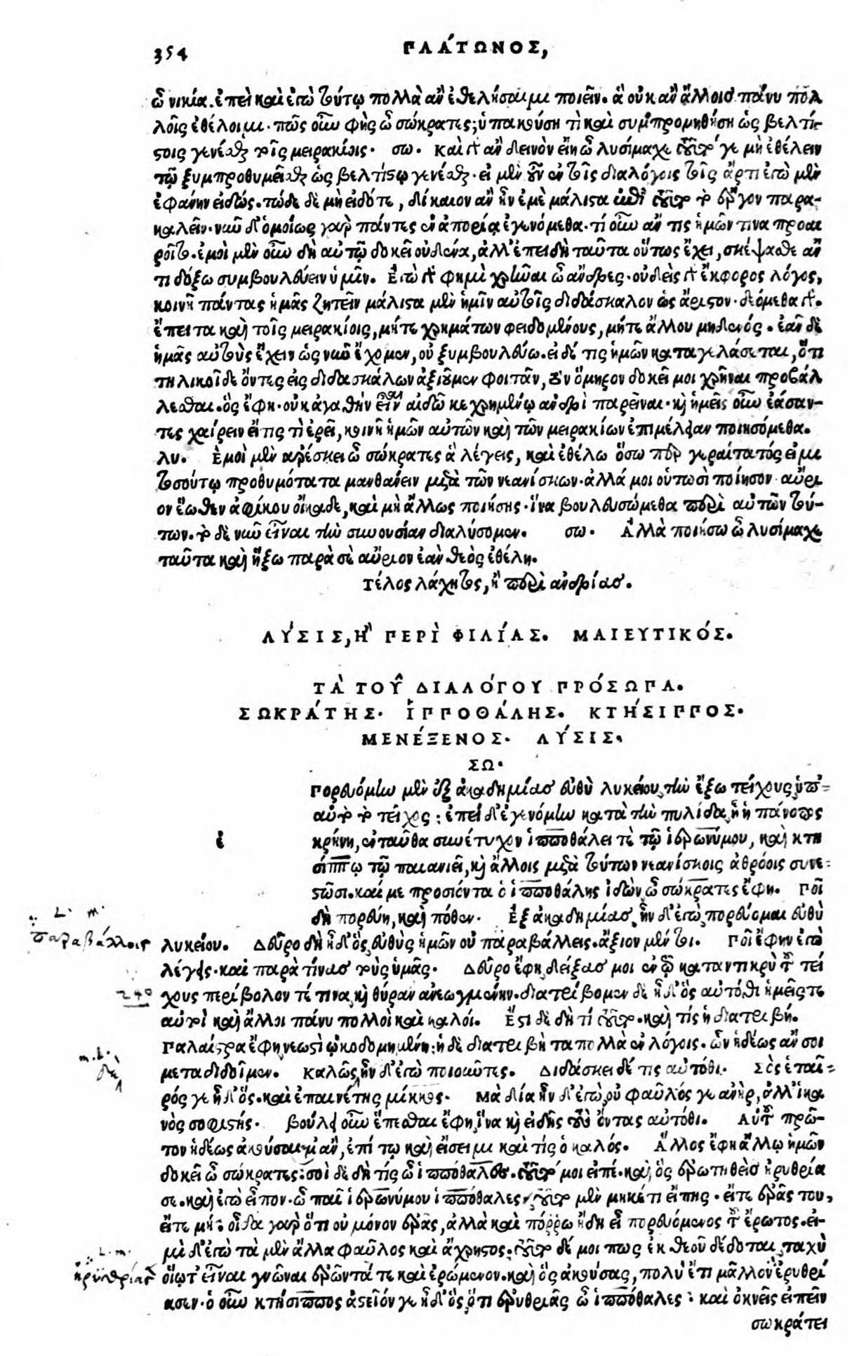 Lysis beginning. Editio princeps, Venice 1513.